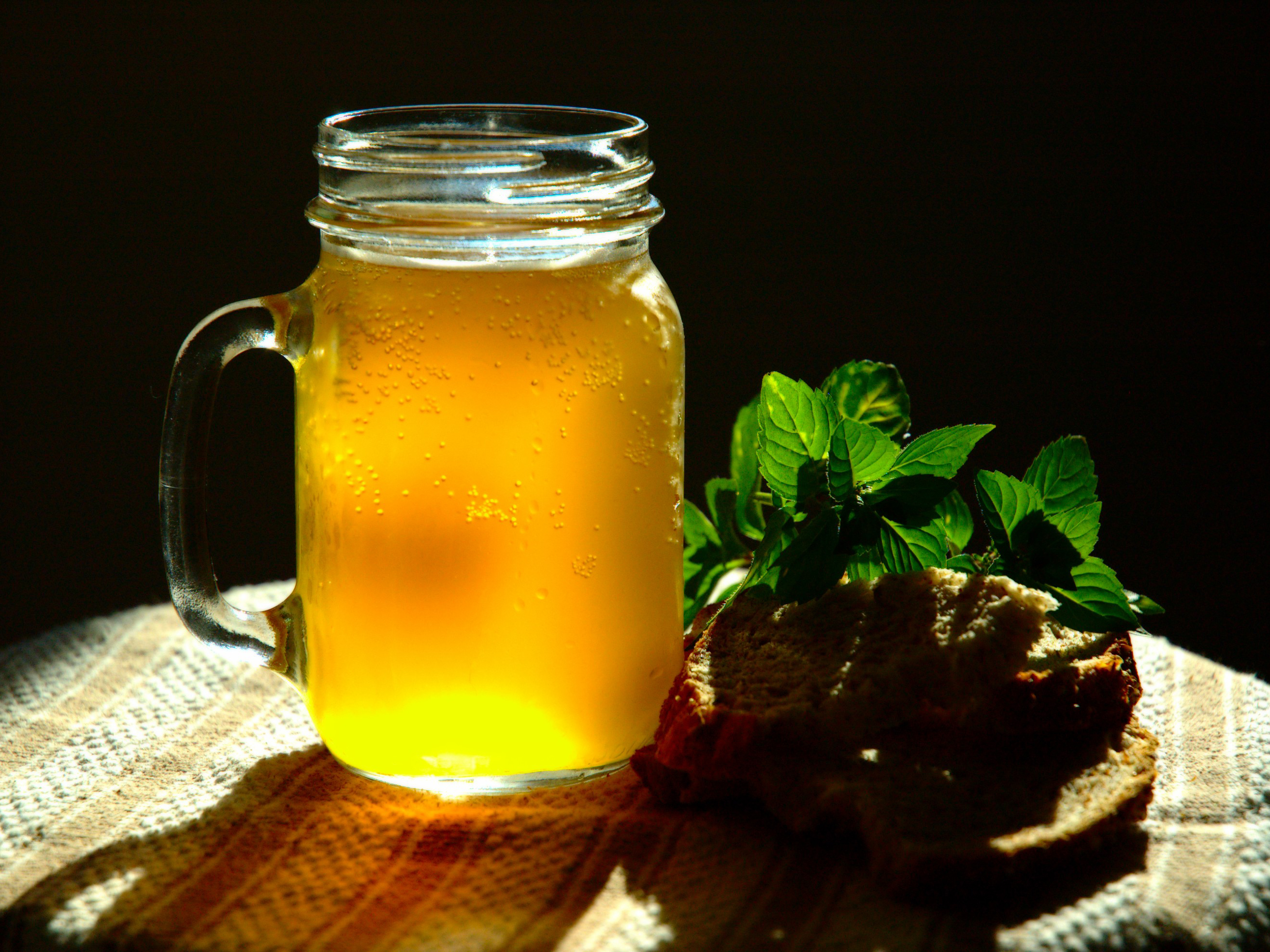 Home-made mint kvas Wikidata has entry Q173773 with data related to this item.